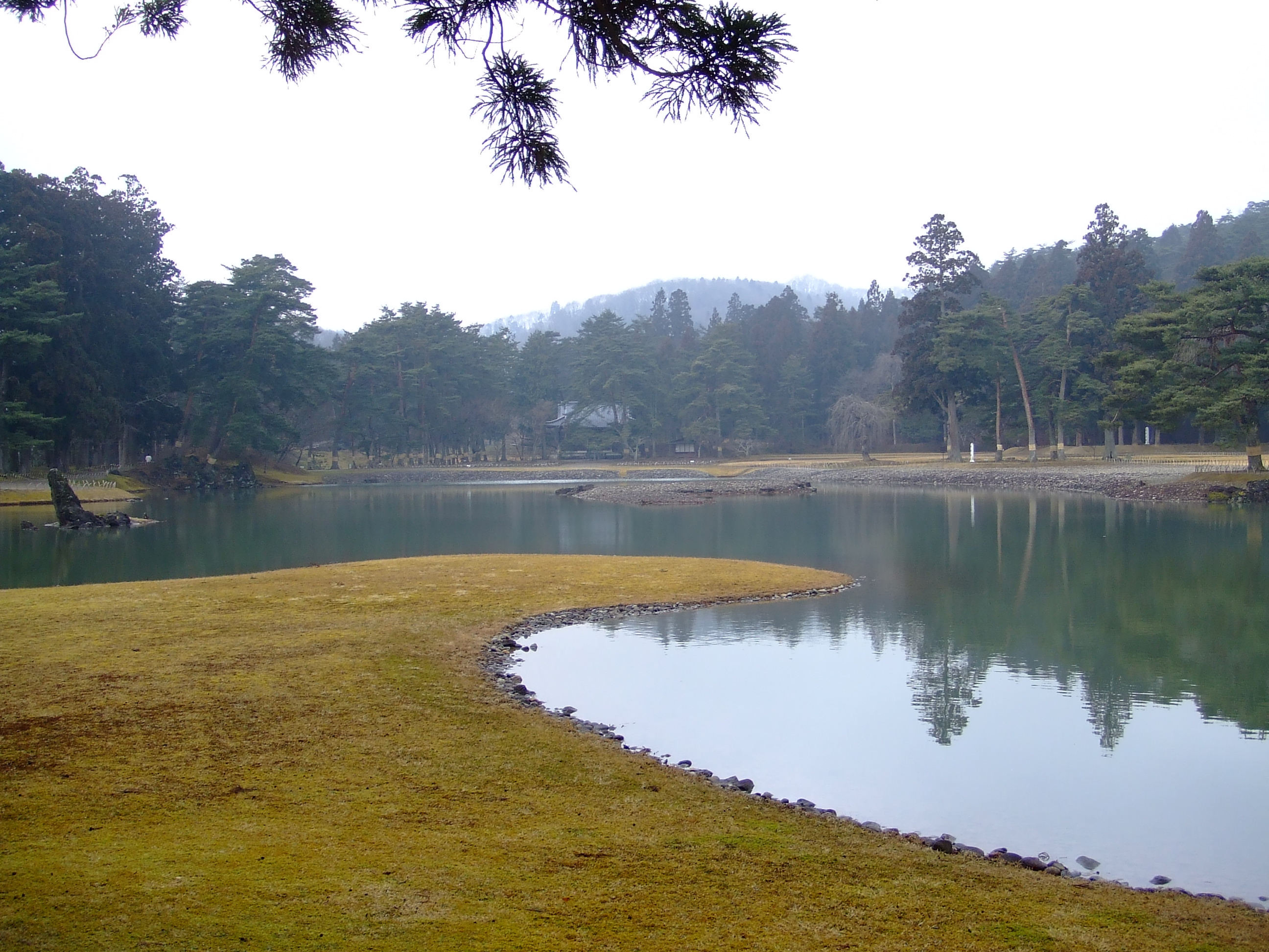 The Oizumi ga Ike Pond in the garden of the Mōtsū-ji Temple in Hiraizumi, Iwate Prefecture, Japan.